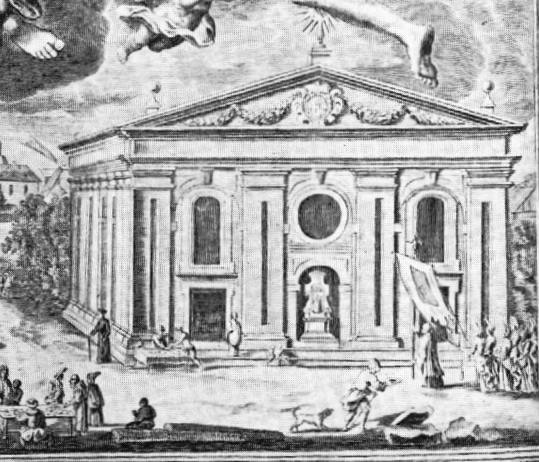 Loretokapelle, Kreuzung der Bilker Allee mit der Lorettostrasse in Düsseldorf-Bilk, 1698, Detail.JPG